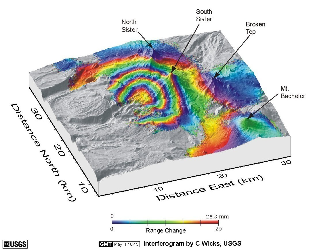 Ground uplift near the Three Sisters volcanic center, central Oregon Cascade Range, detected by satellite radar interferometry.